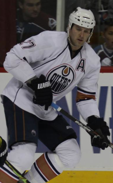 Edmonton Oilers at Colorado Avalanche, 2/6/10 @ Pepsi Center, Denver CO USA